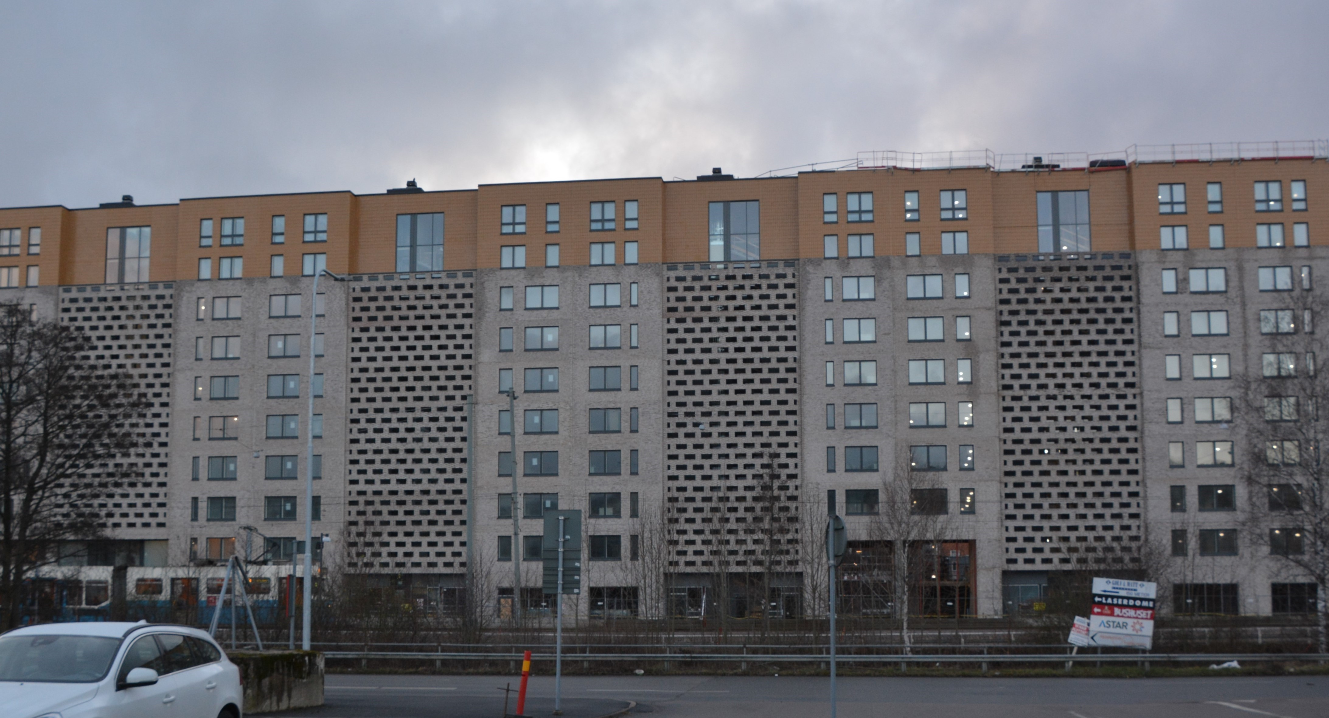 Residential building Light Factory, Mölndalsvägen, Göteborg. Architect: Tengboms. Inaugurated 2018.